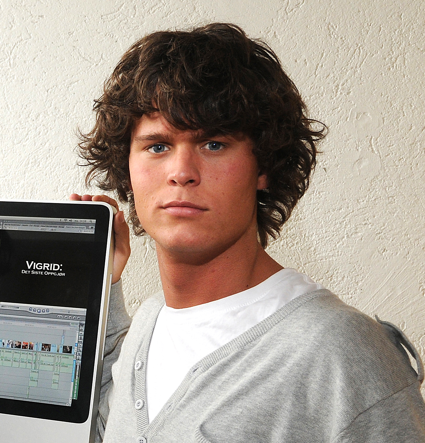 Picture of Anders for his article